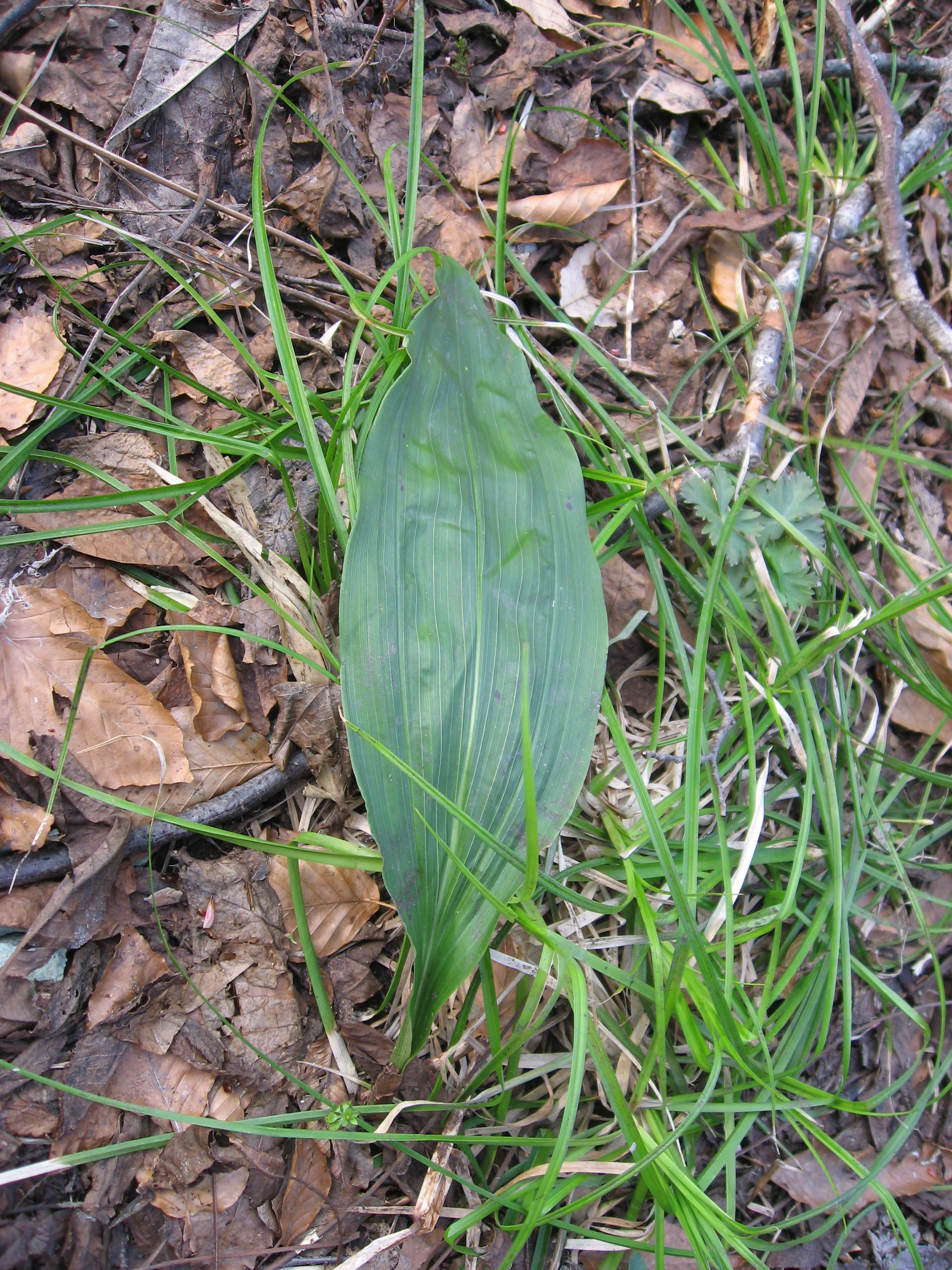 Cremastra appendiculata ,Leaf, Aizu area, Fukushima pref., Japan